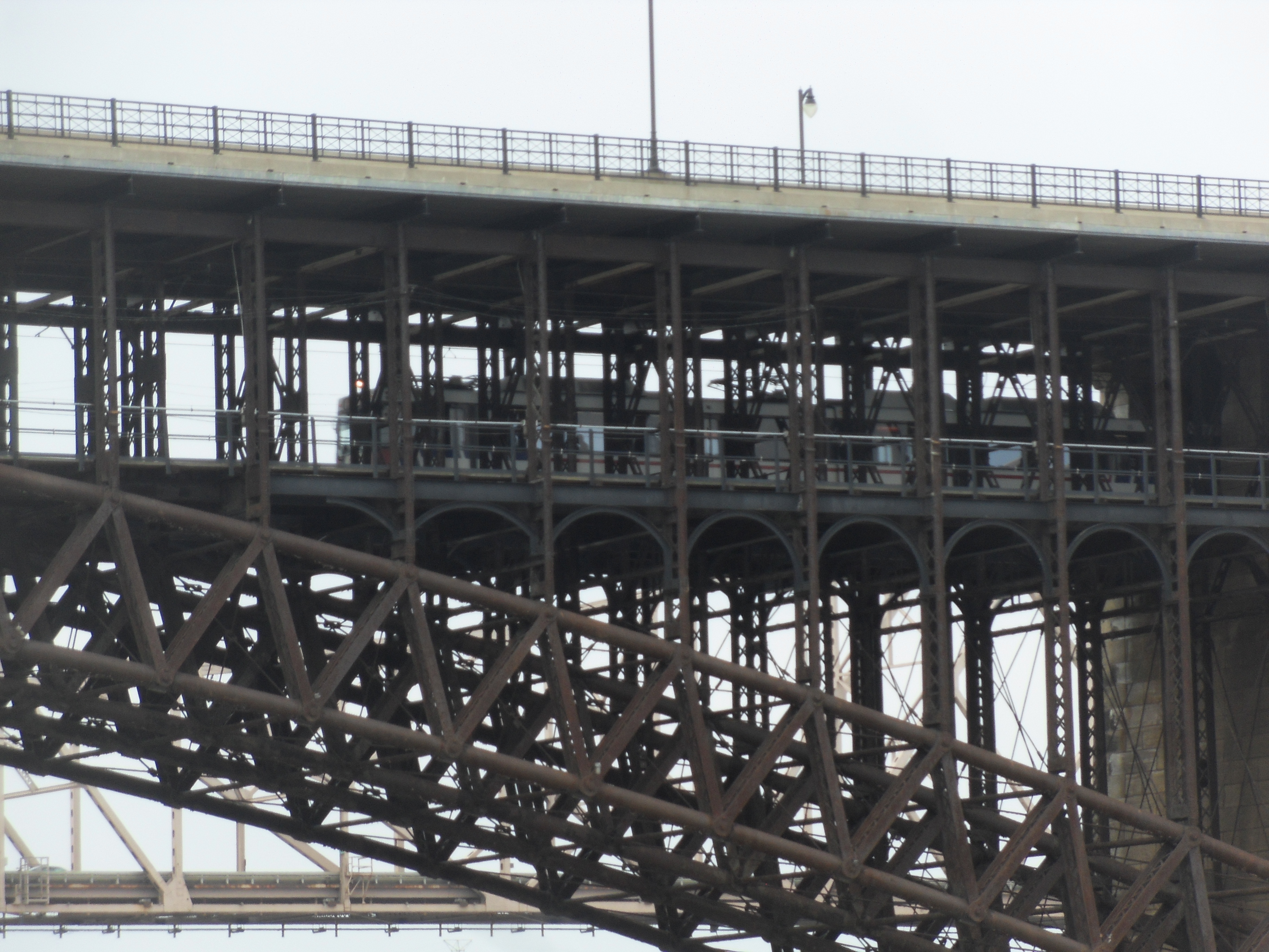 Metro Link train on the Eads Bridge